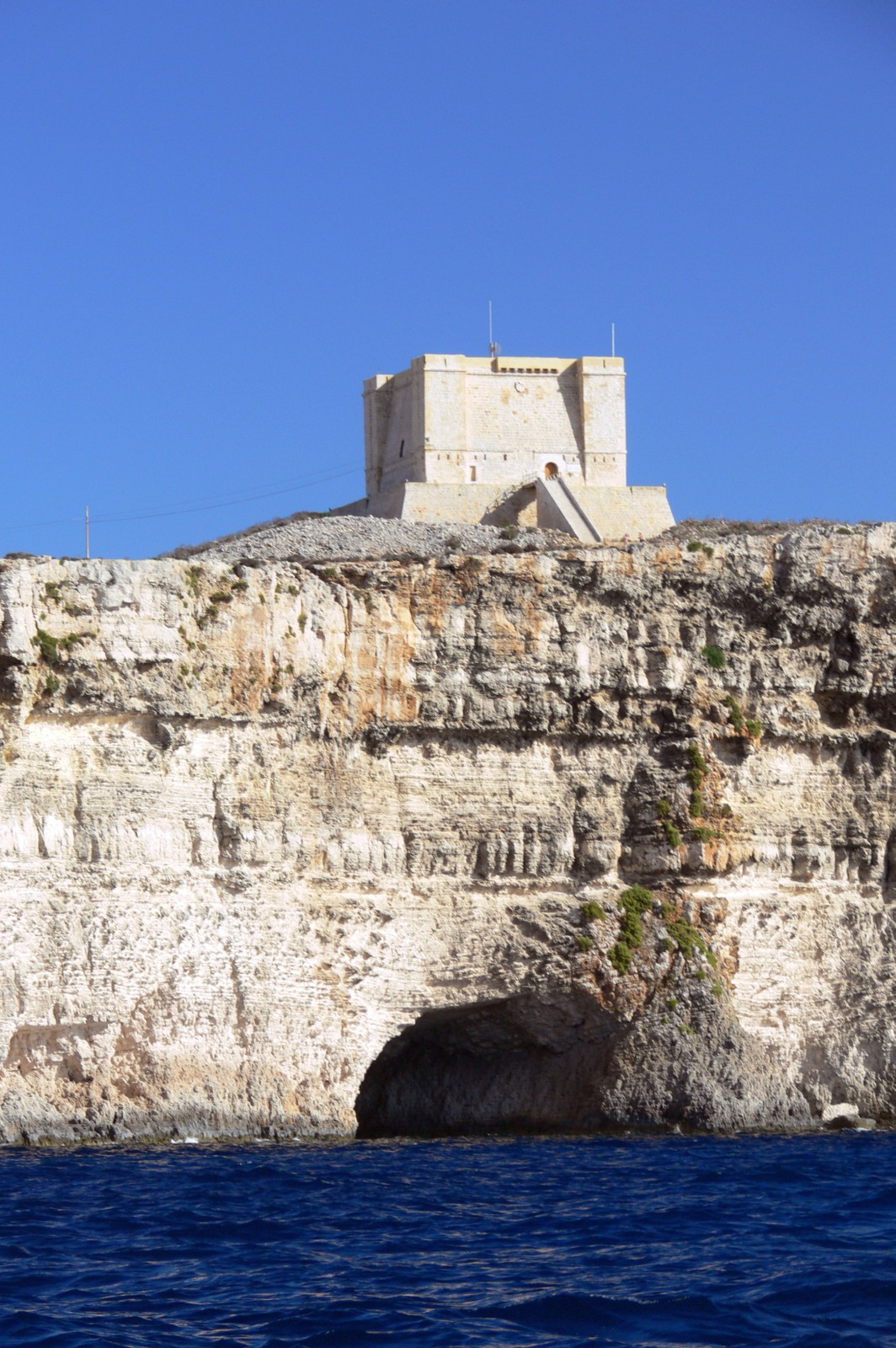 Santa Marija Tower on Comino